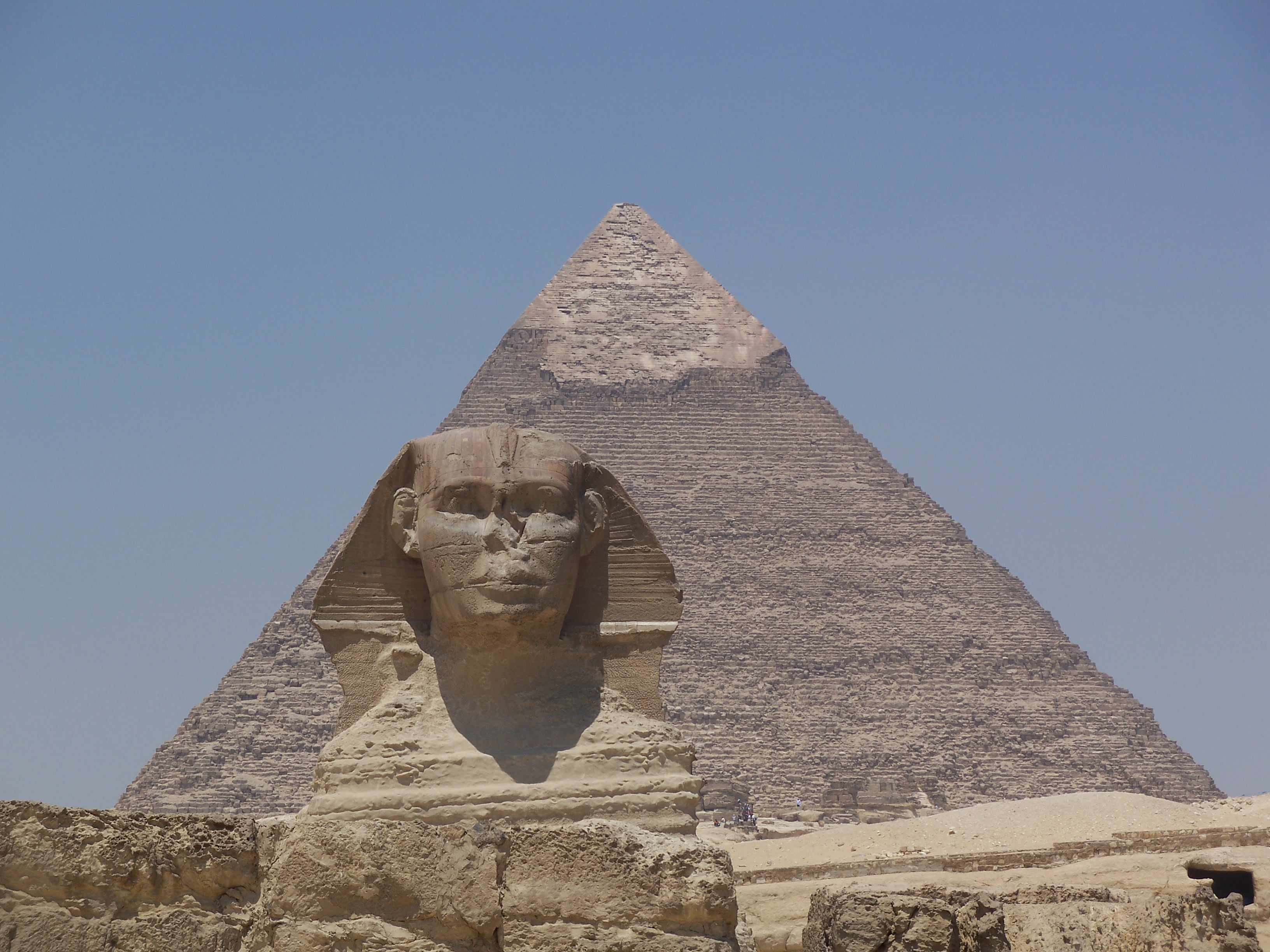 Khafre's Pyramid and the Great Sphinx. Taken by myself. May 25, 2007.